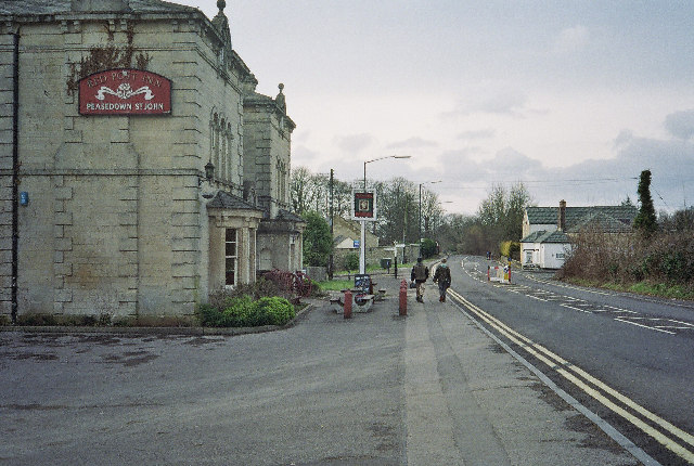 The Red Post Inn, Peasedown St John, Somerset